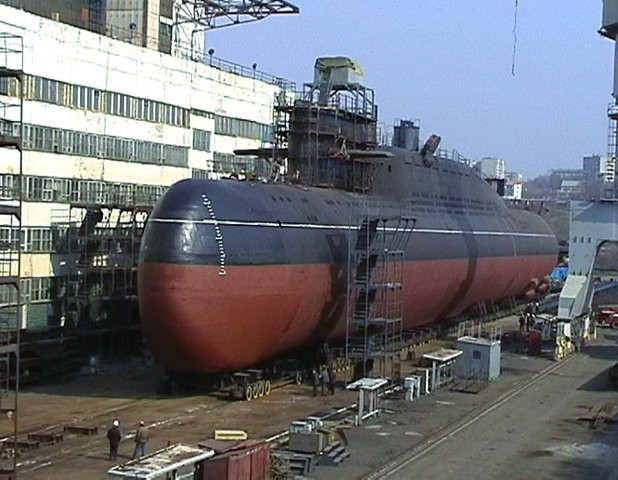 К-433